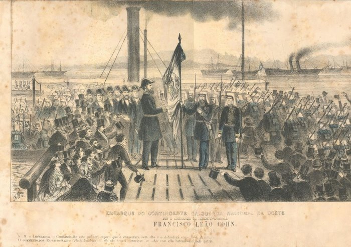 Boarding of the contingent of the national guard of the court, under the command of the lieutenant colonel Francisco Leão Cohn, on the day 26 of February of 1865.